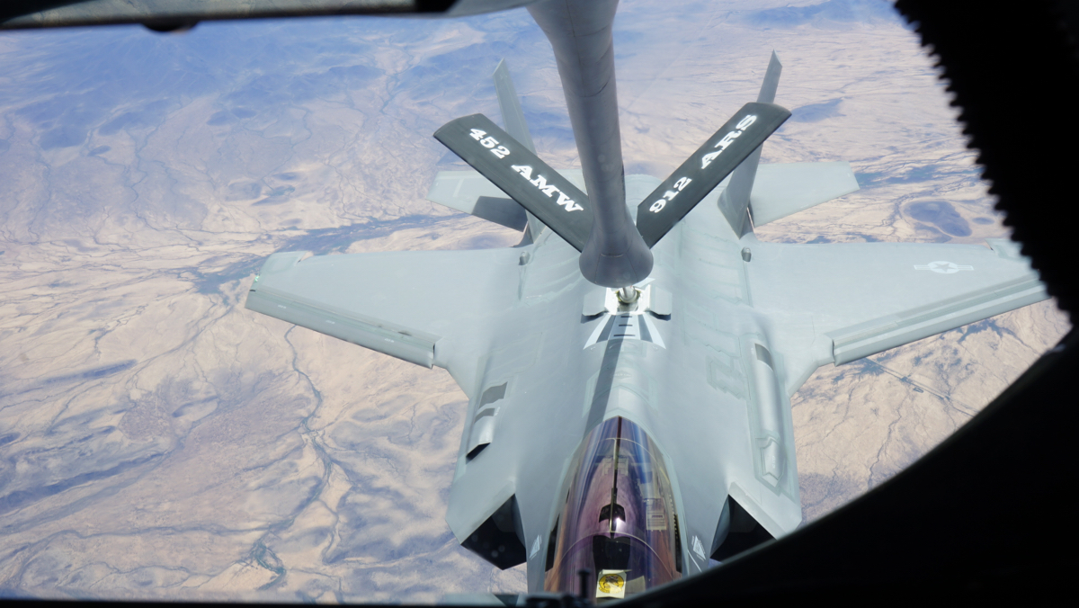 The view from the boom operator's hatch as a F-35 fuels from a KC-135 of the 912d ARS